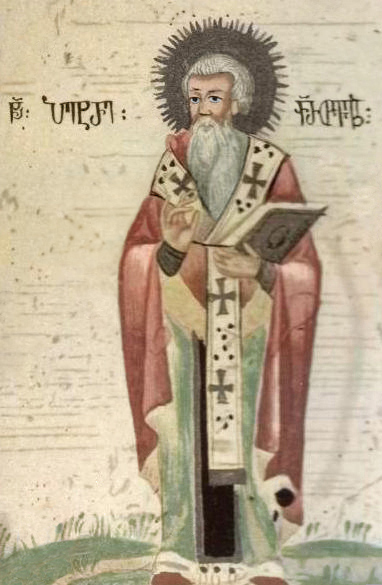 Peter the Iberian (c. 411-491). Georgian Orthodox icon. "Icon of Peter the Iberian (accompanying N. Y. Marr’s edition of the Georgian text, reproduced from the 1896 imprint in Pravoslavnyy Palestinskiy Sbornik, public domain."